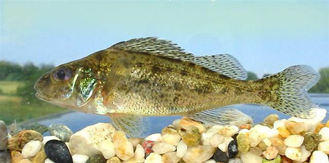 Gymnocephalus cernuus photographed in Marcal river, Hungary.